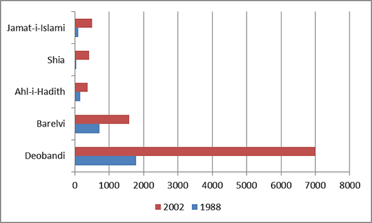 Growth in religious madrassa in Pakistan.